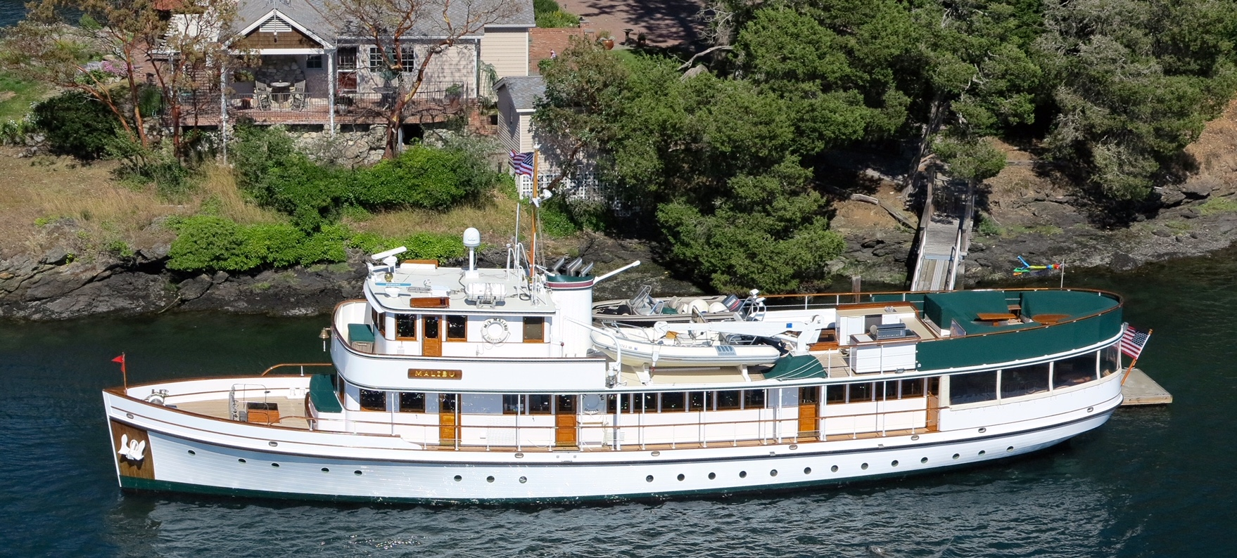 Helicopter shot of yacht Malibu in Friday Harbor, July 4, 2016